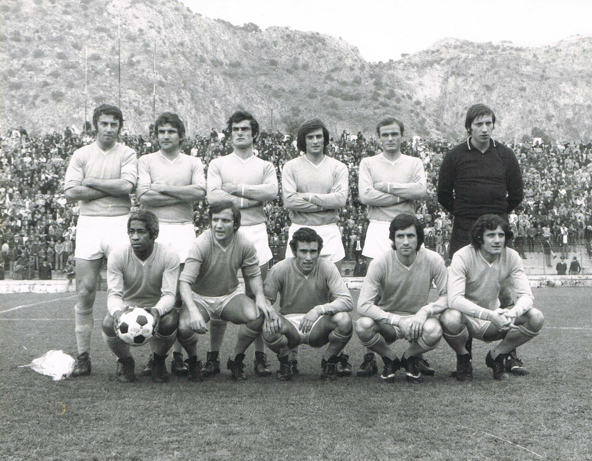 A line-up of S.S.C. Napoli in the 1972–73 season. From left to right, standing: M. Zurlini, D. Fontana, G. Bruscolotti, G. Improta, G. Vavassori, P. Carmignani; crouched: Jarbas Faustino "Cané", S. Esposito, G. "Oscar" Damiani, A. Rimbano, G. Mariani.